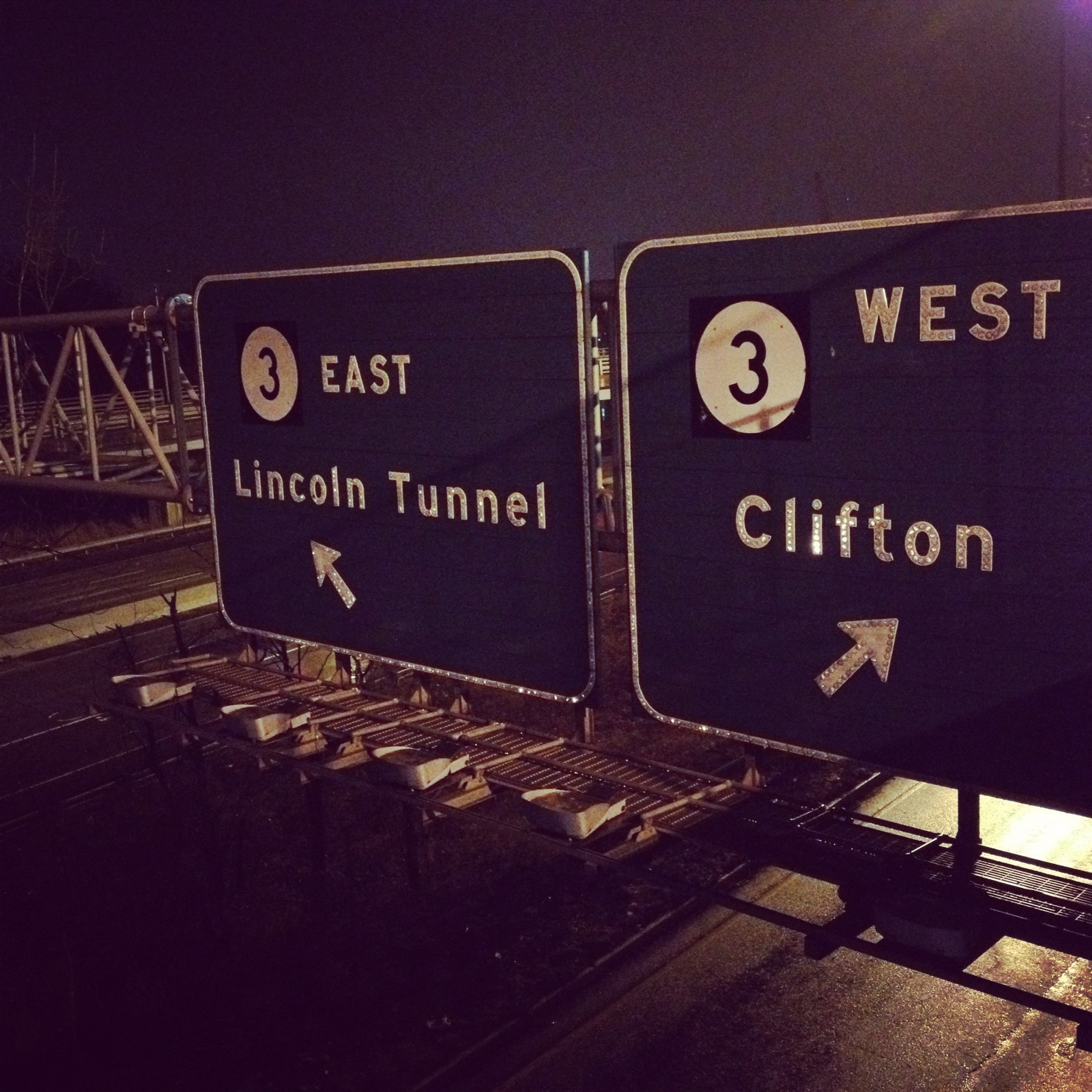 NJ Highway Route 3 Sign